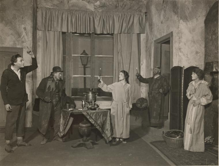 Louise Treadwell (center) and Whitford Kane (right, at the door) in the Broadway's play The Pigeon - publicity still